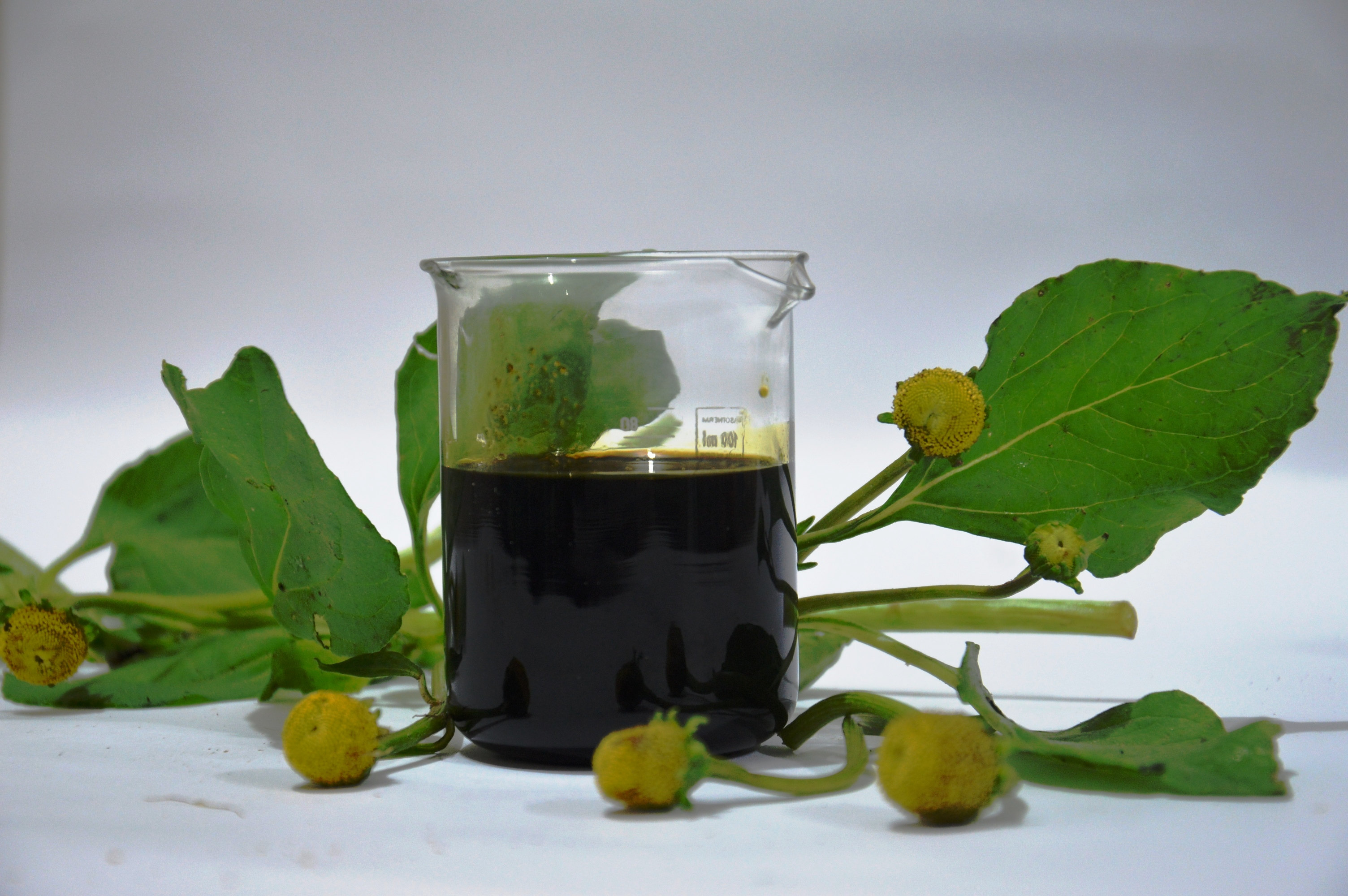 Virgim Jambu oil